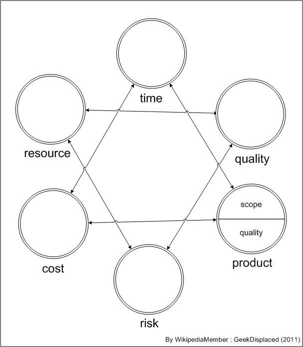 Diagram based on Project Management Constraint 6 point Star by PMBOK 4.0, suggested personal evolution or interpretation.